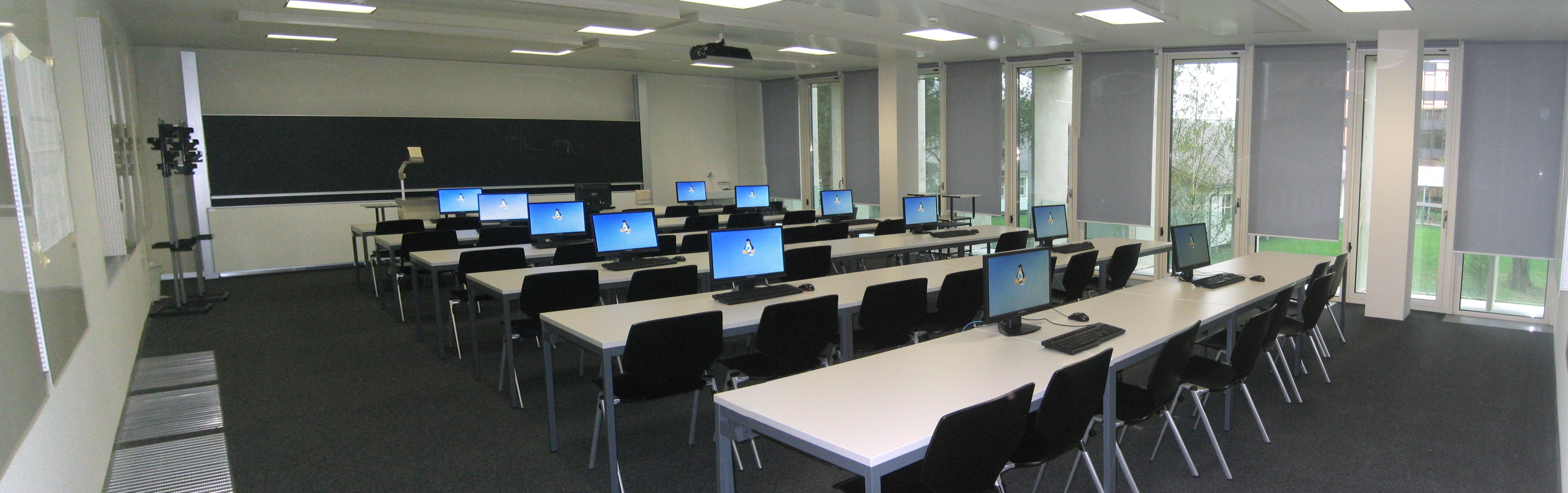 ETH Zurich, HIT F 21 Seminar room